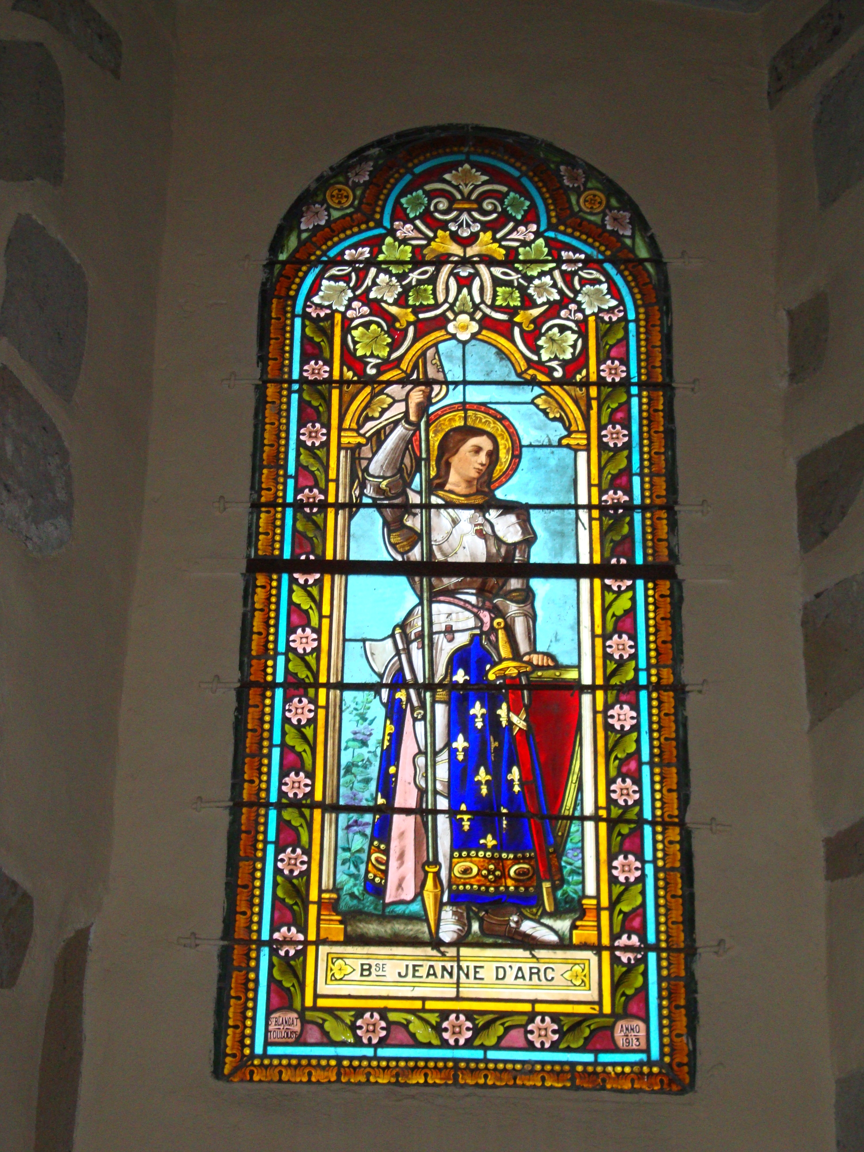 Domezain (Domezain-Berraute, Pyr-Atl, Fr) stained glass window of Saint Jeanne d'Arc, signature: "ST. BLANCAT TOULOUSE ANNO 1913"